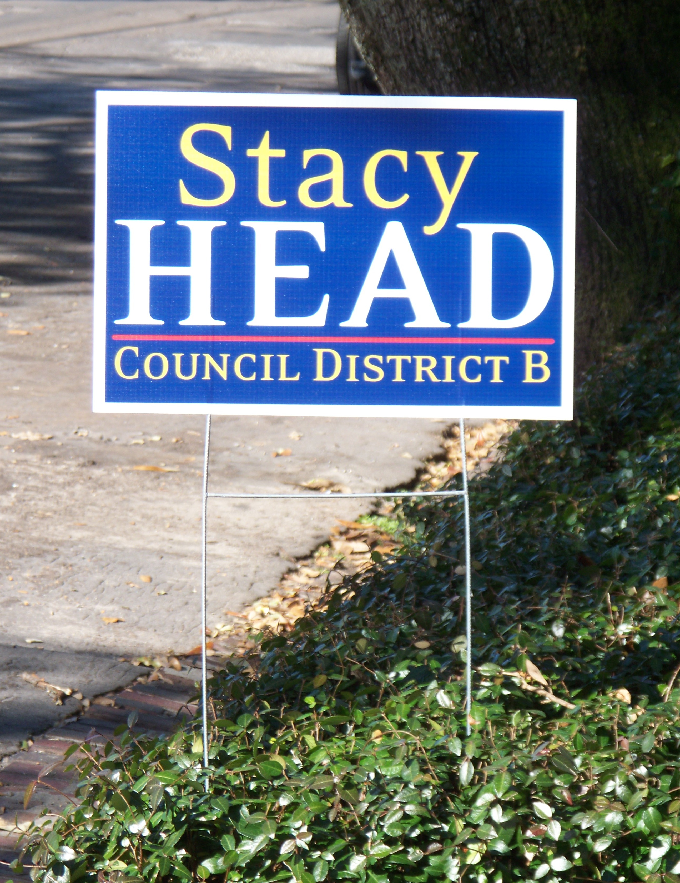 Head poster in New Orleans' Garden District 2010 January 3